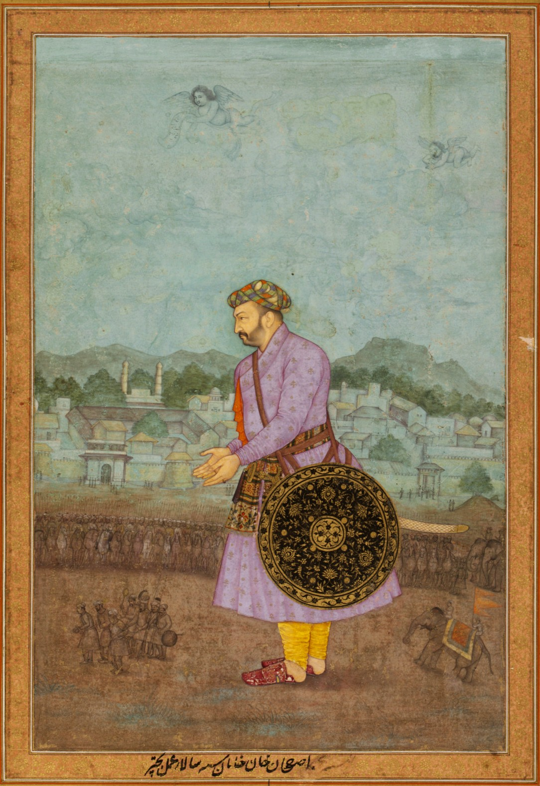 Portrait of Asaf Khan Object Name: Album leaf Date: 19th century Geography: India Culture: Islamic Dimensions: 14 1/4 x 9 3/4in. (36.2 x 24.8cm) Classification: Codices Credit Line: Gift of Alexander Smith Cochran, 1913 Accession Number: 13.228.52 This artwork is not on display